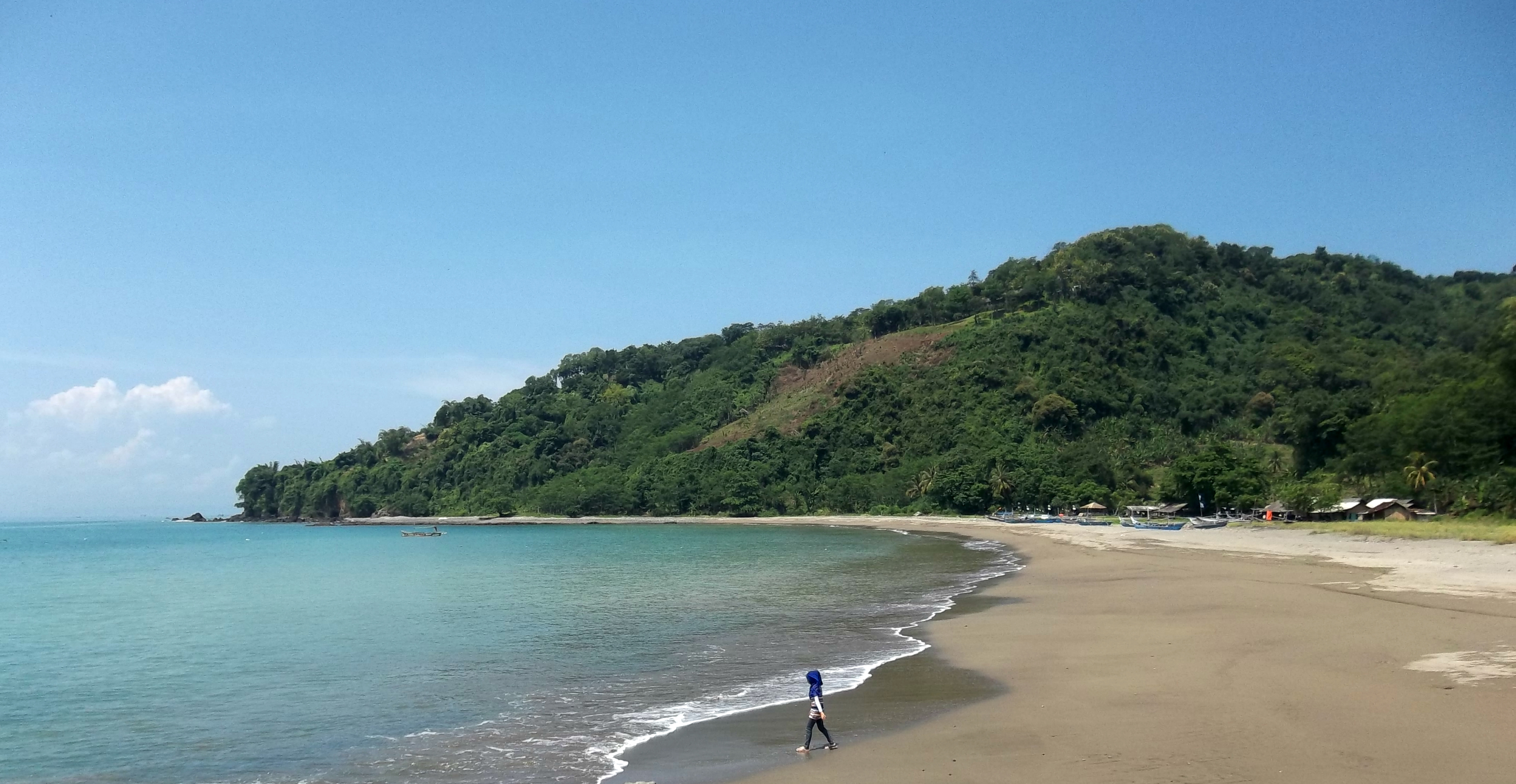 A Beautiful Beach At Pelabuhan Ratu, Sukabumi, West Java, Indonesia.